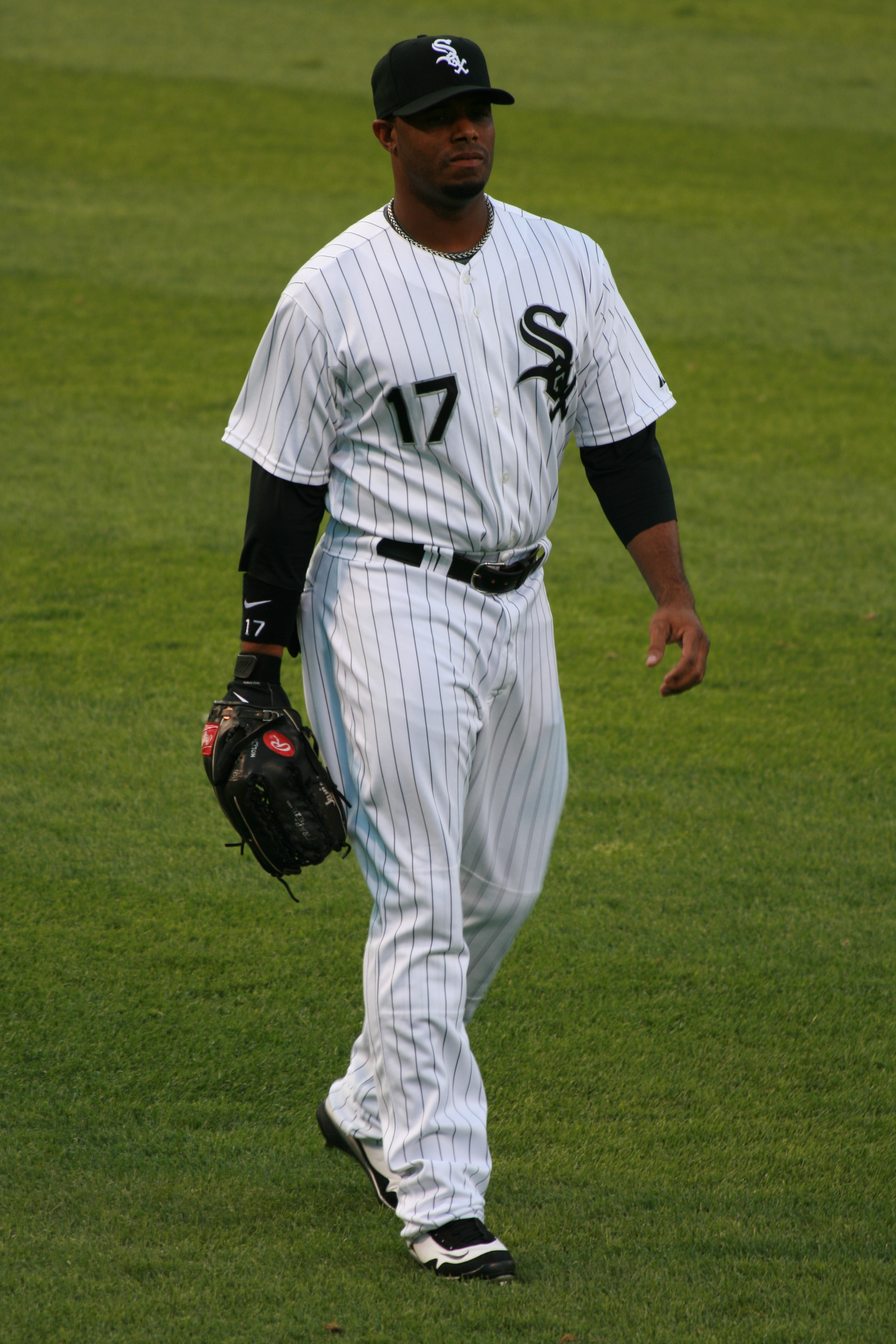 Ken Griffey Jr playing right field for the Chicago White Sox